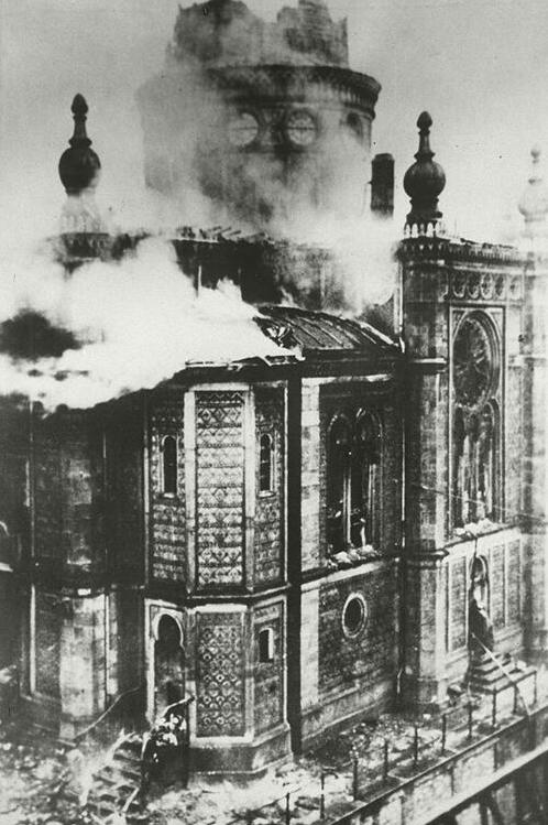 Description: Wiesbaden Synagogue Burning; Kristallnacht; November Pogroms Creator/Photographer: Unknown Medium: Black and white photographic print Date: 9 November 1938 Repository:Leo Baeck Institute Parent Collection: Frederick W. Elkan Collection Call Number: AR 4039 Rights Information: No known copyright restrictions; may be subject to third party rights. For more copyright information, click here. Find more information about this image and others at CJH Archives and Library Catalog.